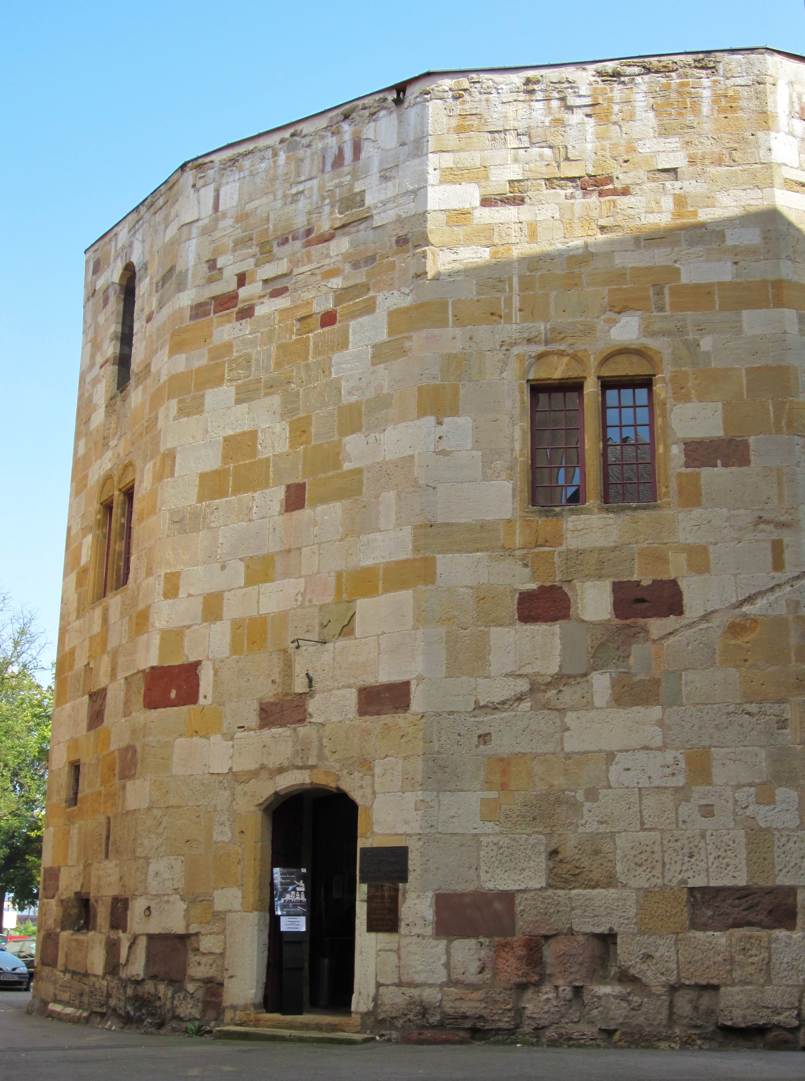 Description tour puces Thionville Date26 August 2011Sourcemon appareil photoAuthorAimelaimePermission(Reusing this file) tour puces Thionville